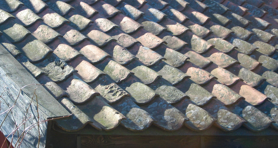 bricks on a 18th century roof, Sweden